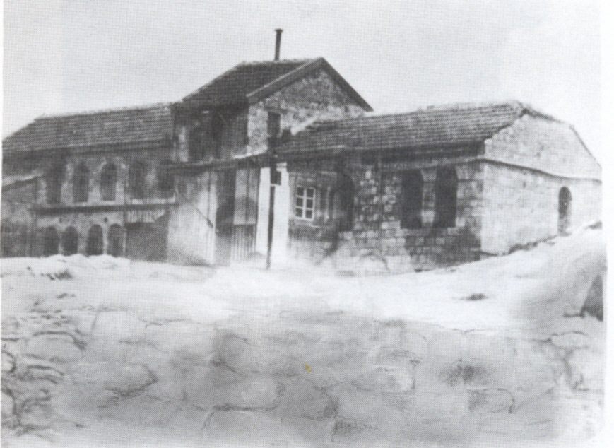 The former synagogue of Karlin-Stolin hasidic community in the Old City of Jerusalem